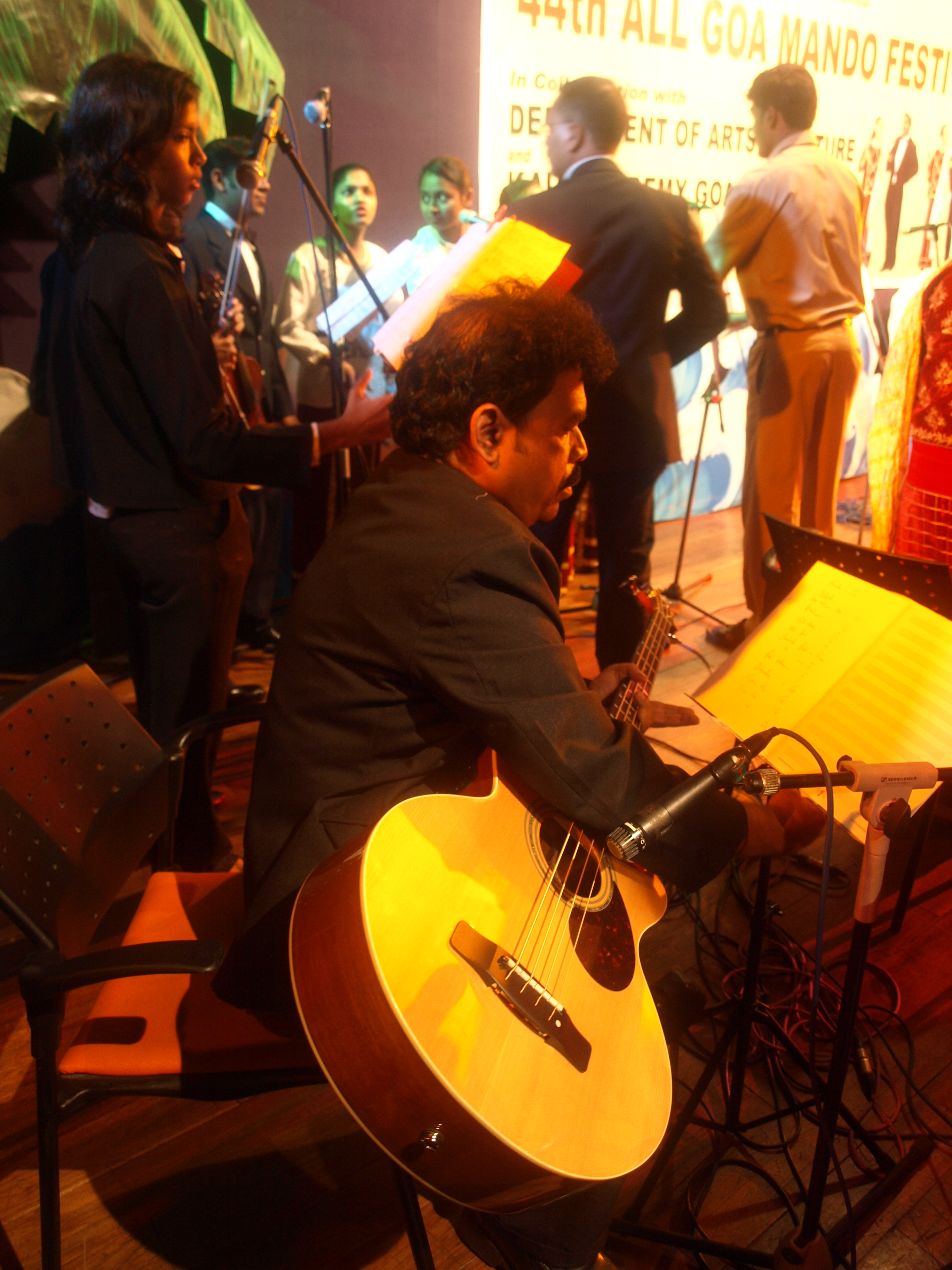 Musicians ready for the Mando stage. Konkani music. Goa. Photo by Frederick Noronha, +91-9822122436.